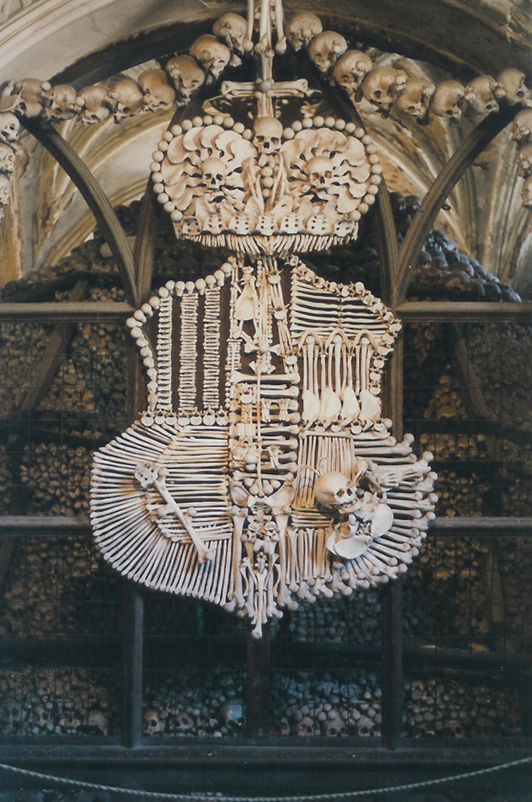 Coat of arms of Schwarzenberg family at Kostnice (Sedlec Ossuary) in Kutná Hora, Czech Republic